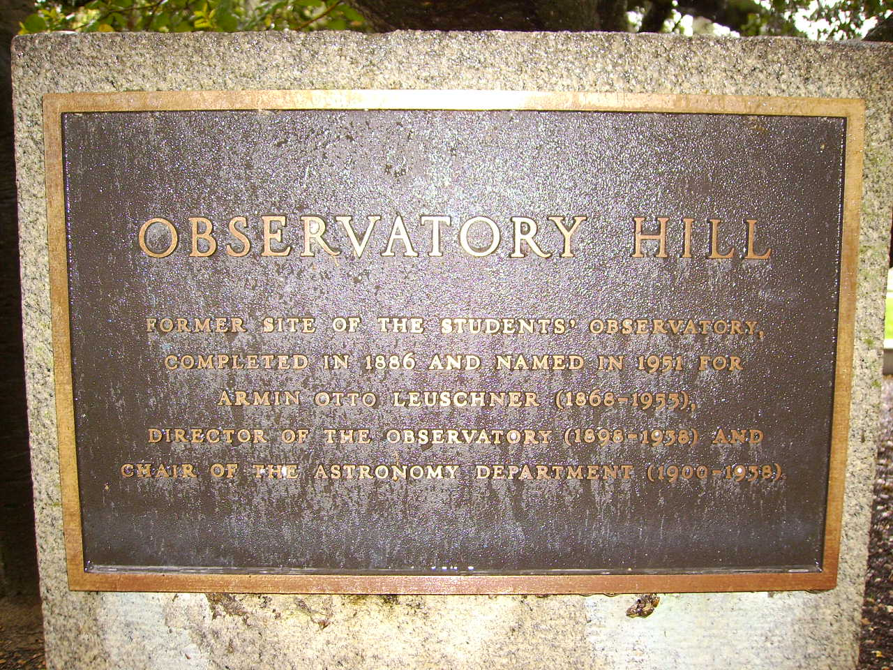 Plaque commemorating Armin Leuschner and the Students' Observatory at UC Berkeley.